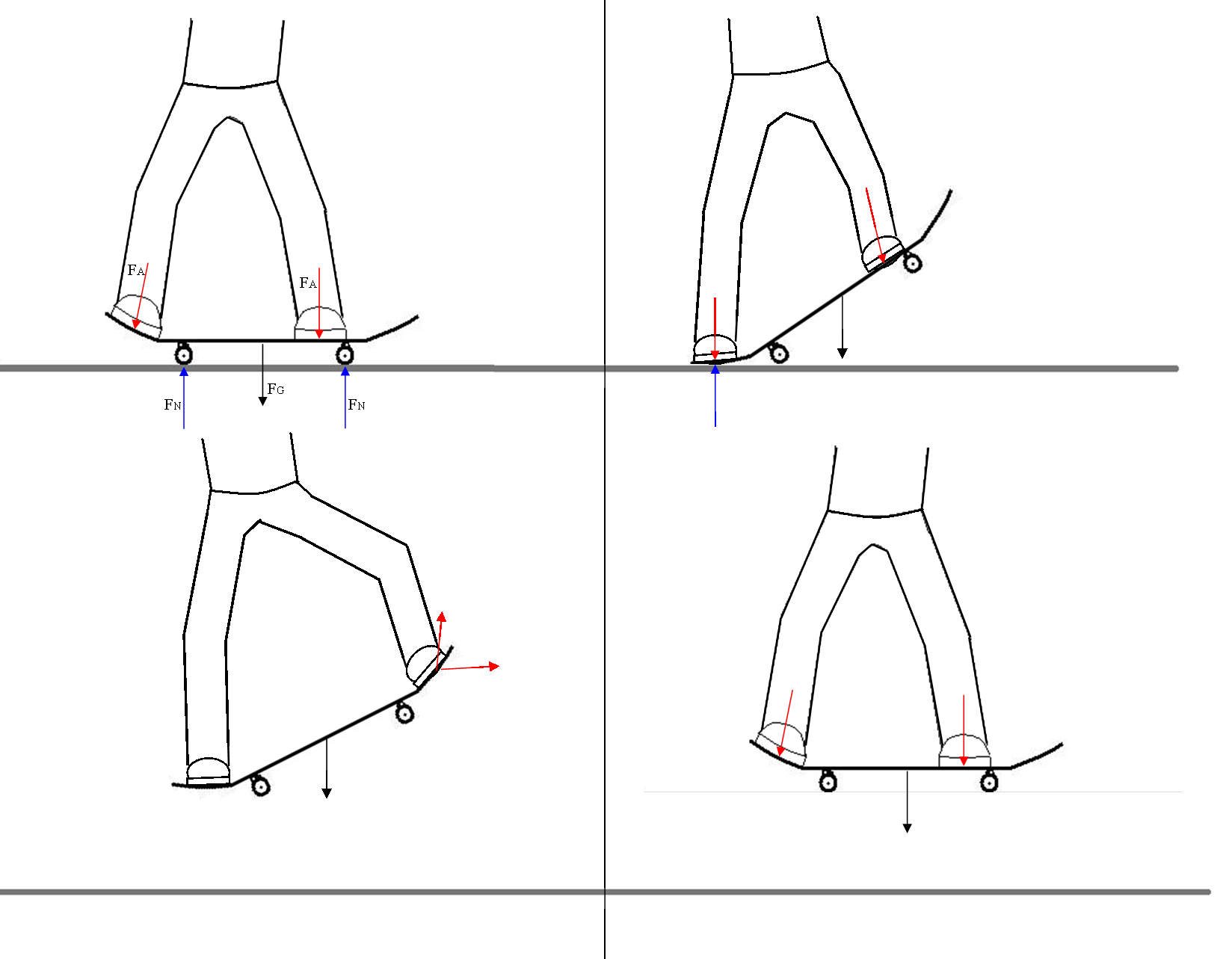 ollie